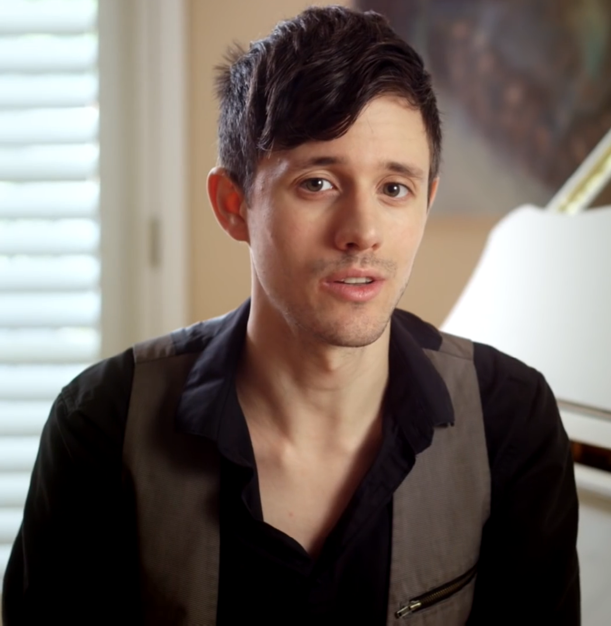 Kurt Hugo Schneider being interviewed for an Invisalign campaign video "Kurt Hugo Schneider Made to Move Ep. 1 Filmmaking" in 2017